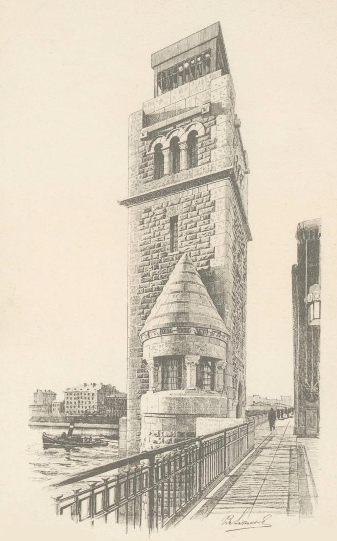 Saint Petersburg (Russia), Peter the Great Bridge.